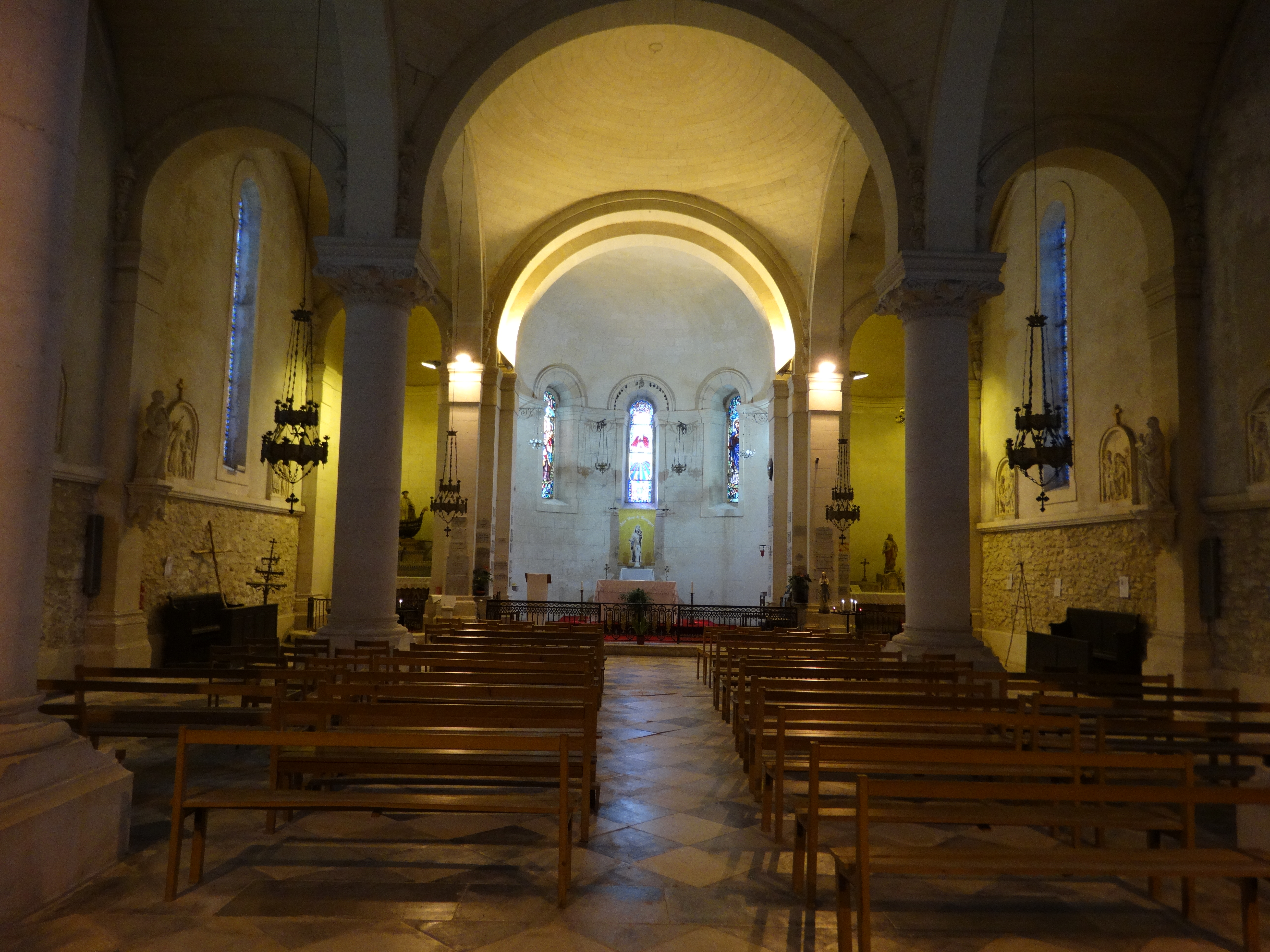 Chpel Notre-Dame de Beauregard (inner view)